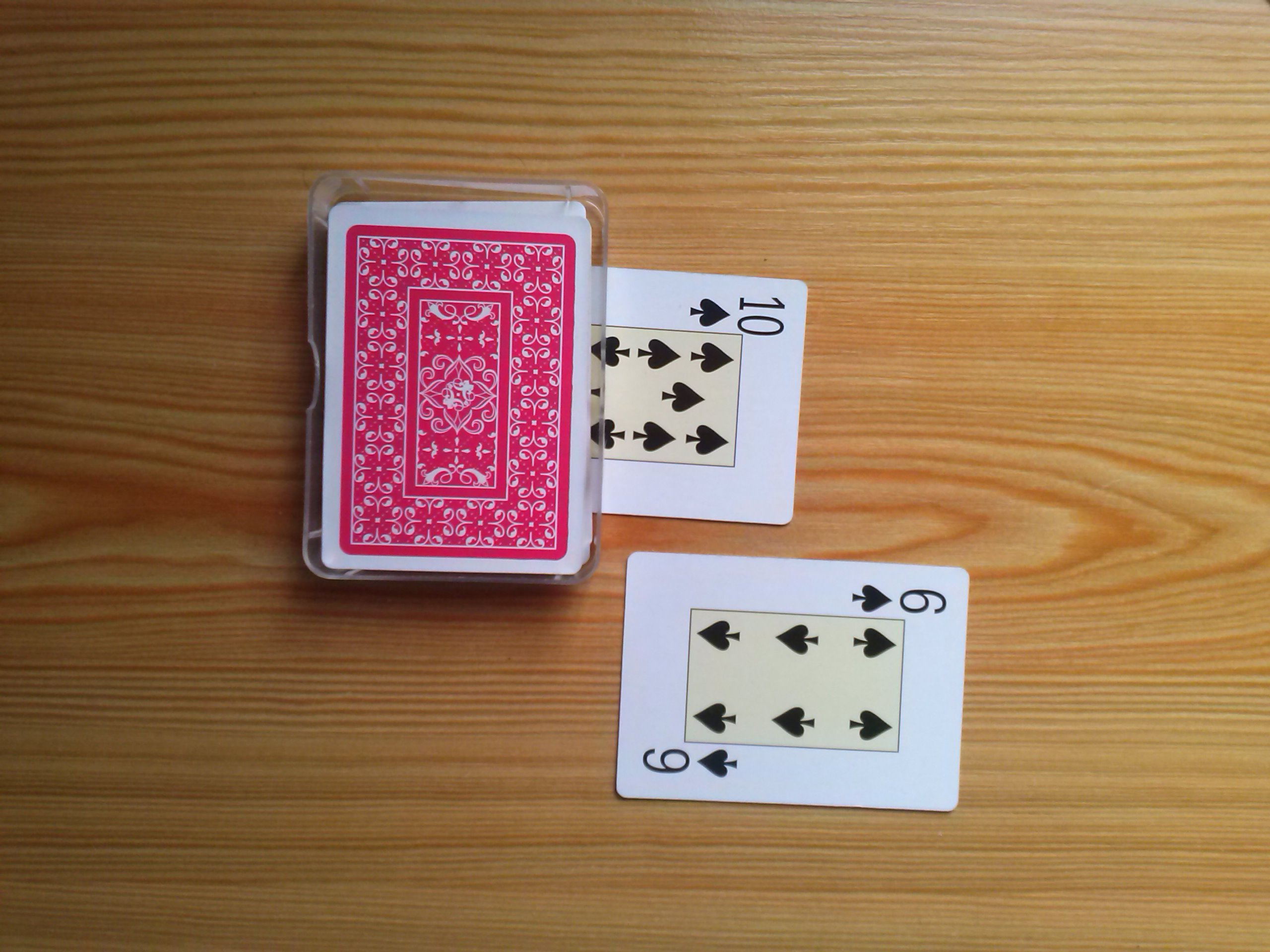 In the picture we can see a card under a deck in 90ª, as in Durak game as well as another card beside it low and of the same suit.